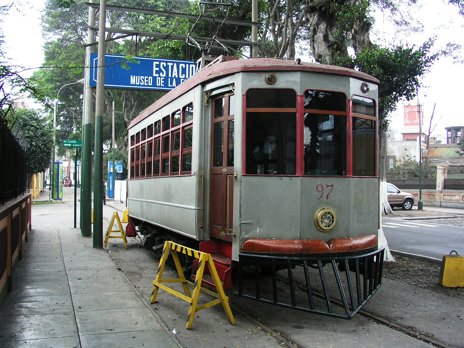 Streetcar. On Pedro de Osma Ave., some tracks from the former streetcar (originally a railroad between Chorrillos/La Herradura and Downtown Lima) can be seen